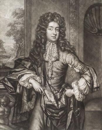 Charles FitzCharles Charles FitzCharles, 1st Earl of Plymouth